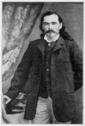 Depicted person: Billy Dixon – United States Army Medal of Honor recipient